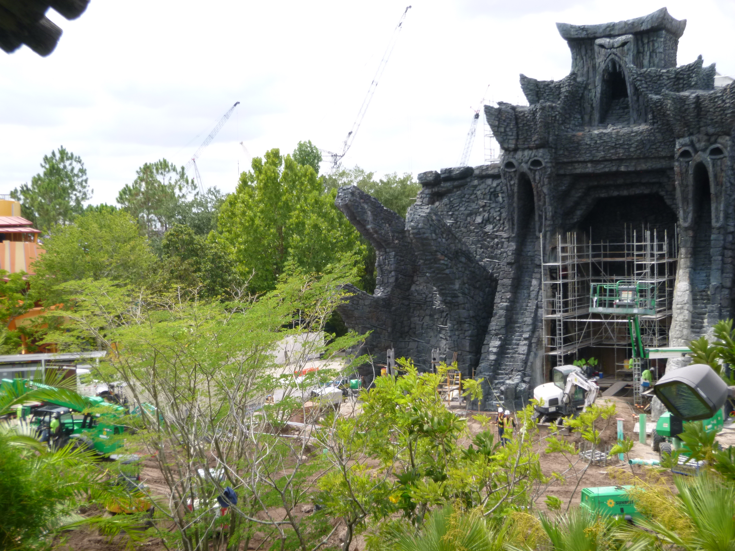 Reign of Kong's construction